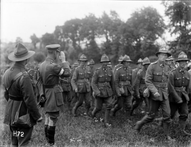 General Godley salutes marching soldiers of 2nd Infantry Brigade during troop review after the Battle of Messines, Belgium. Photograph taken 21 June 1917. Royal New Zealand Returned and Services' Association :New Zealand official negatives, World War 1914-1918. Ref: 1/2-012783-G. Alexander Turnbull Library, Wellington, New Zealand